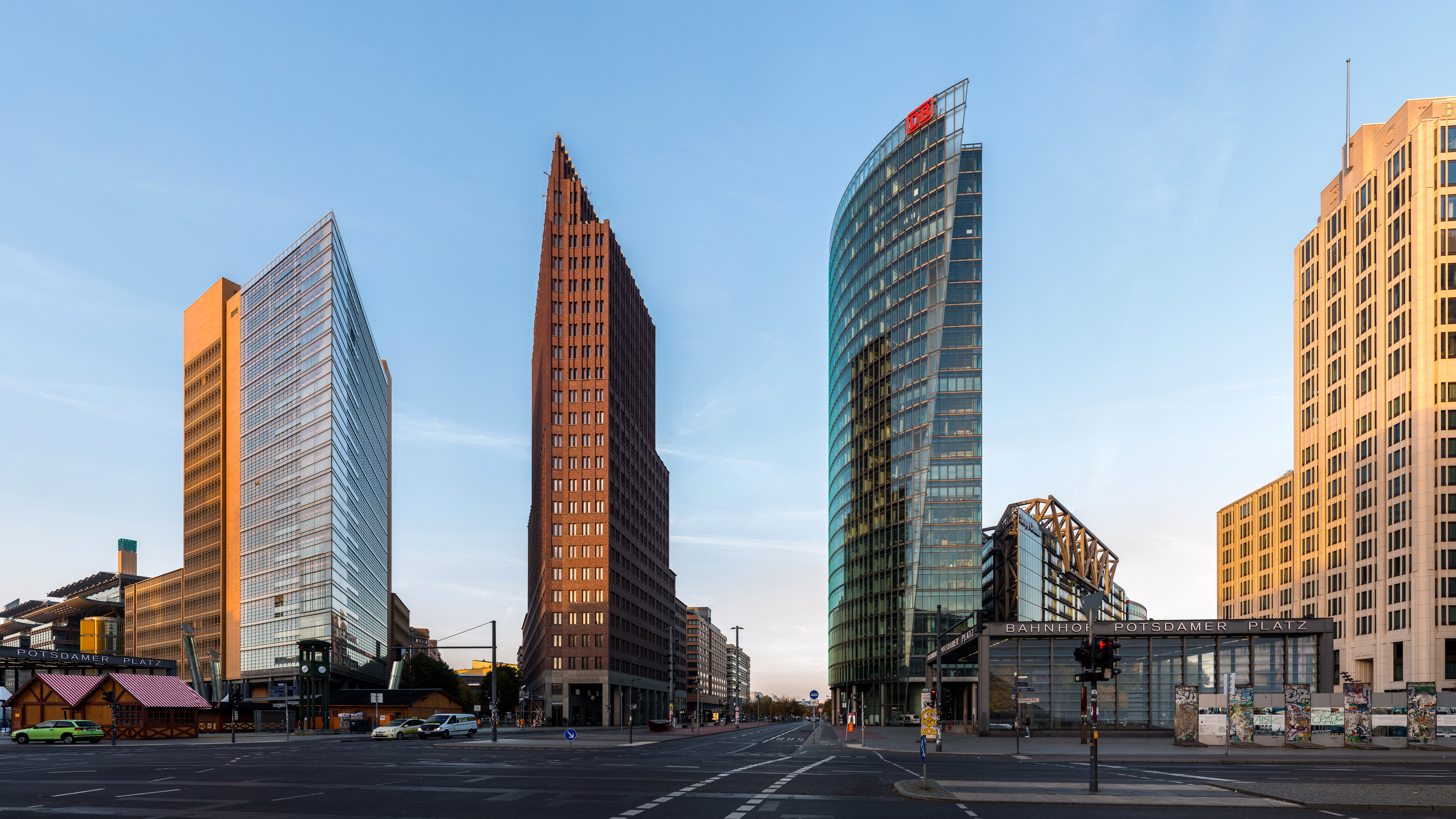 Potsdamer Platz, Berlin-Mitte with the following buildings (from left to right): Office building by Renzo Piano, Kollhoff-Tower (by Hans Kollhoff), Bahntower by Helmut Jahn, Beisheim Center (various architects).